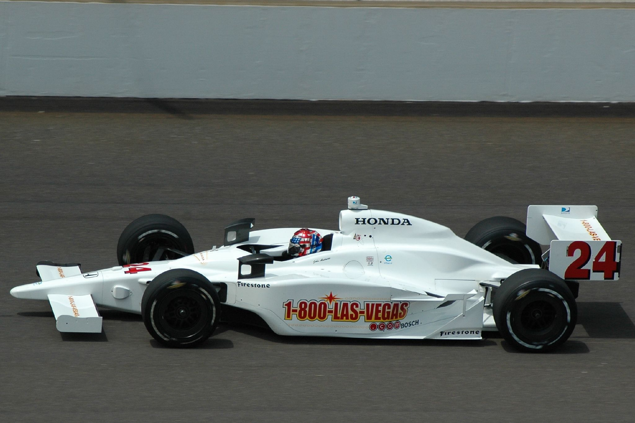 John Andretti at Indianapolis 500 practice.